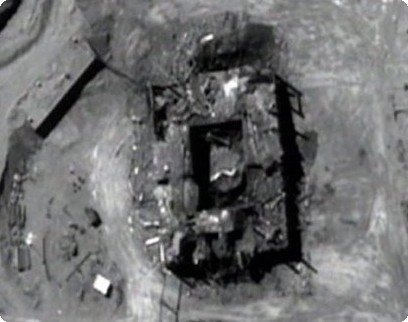 Syrian nuclear reactor, after it was destroyed by Israeli air force attack on September 6, 2007